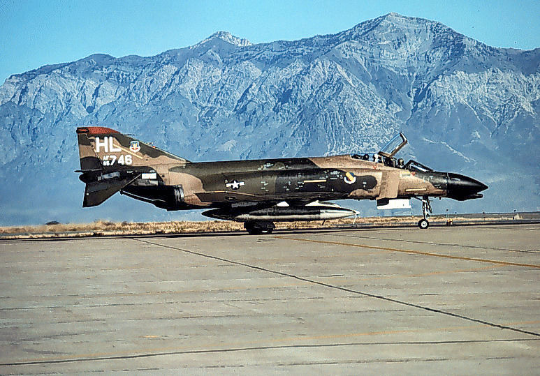 F-4 Phantom II of the 388th Tactical Fighter Wing With the Wasatch Front mountain range, in front of Willard and Ben Lomond Peaks, at Hill Air Force Base, Utah.